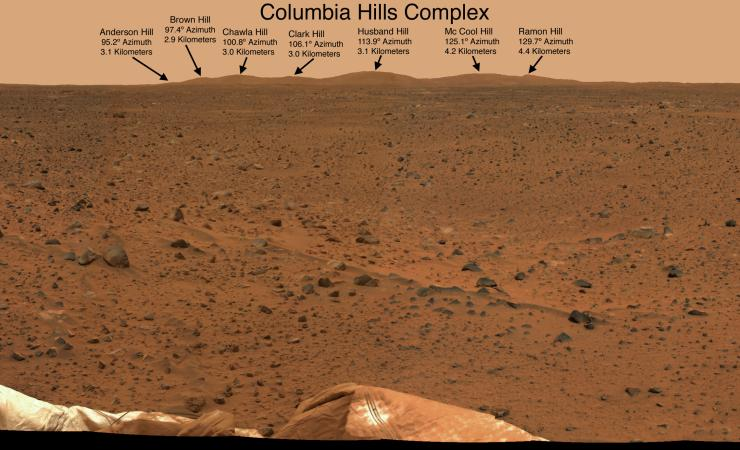 NASA Dedicates Mars Landmarks to Columbia Crew